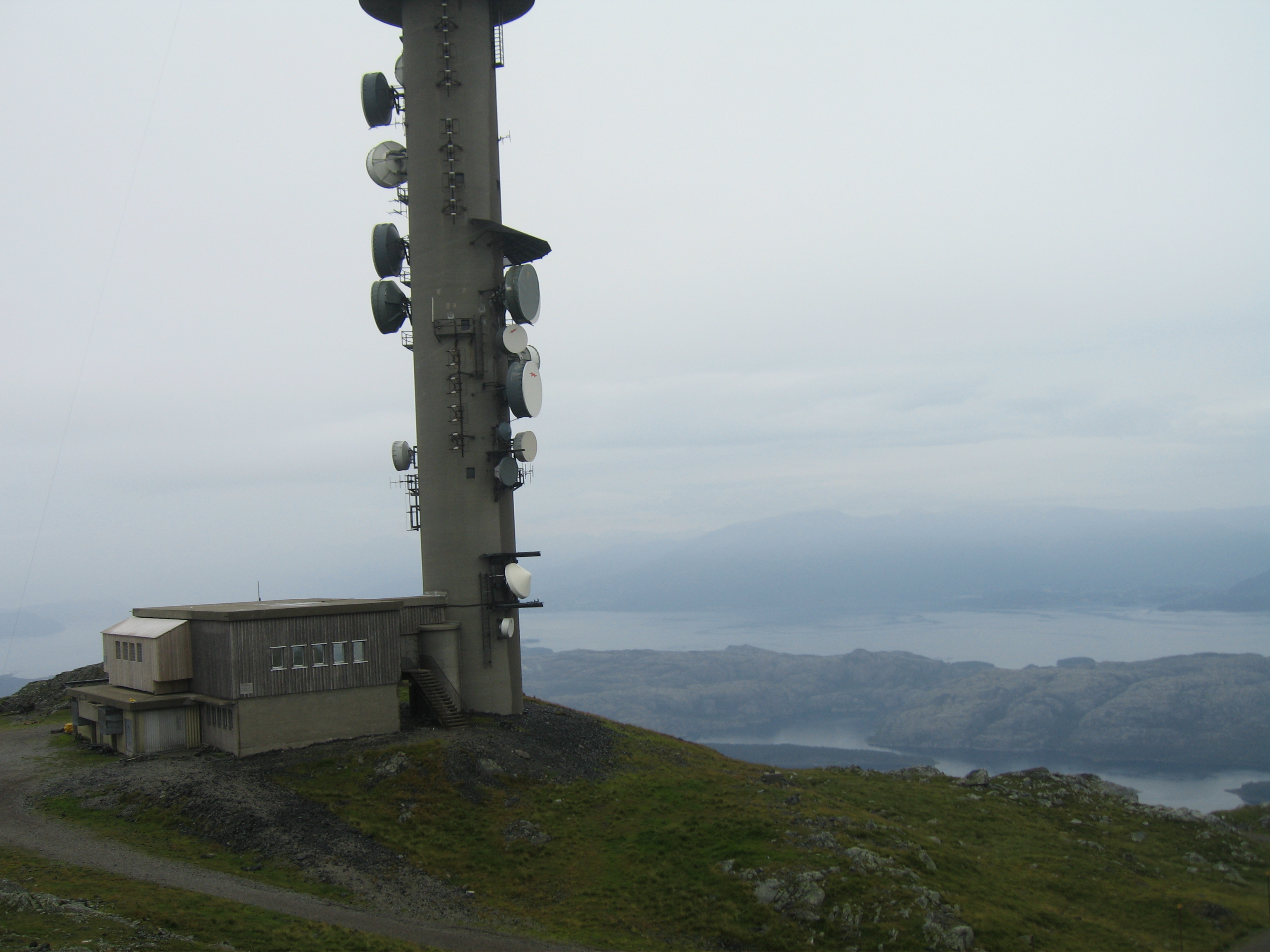 A view from the summit of the mountain Kattnakken, located in the municipality of Stord in Hordaland, Norway.